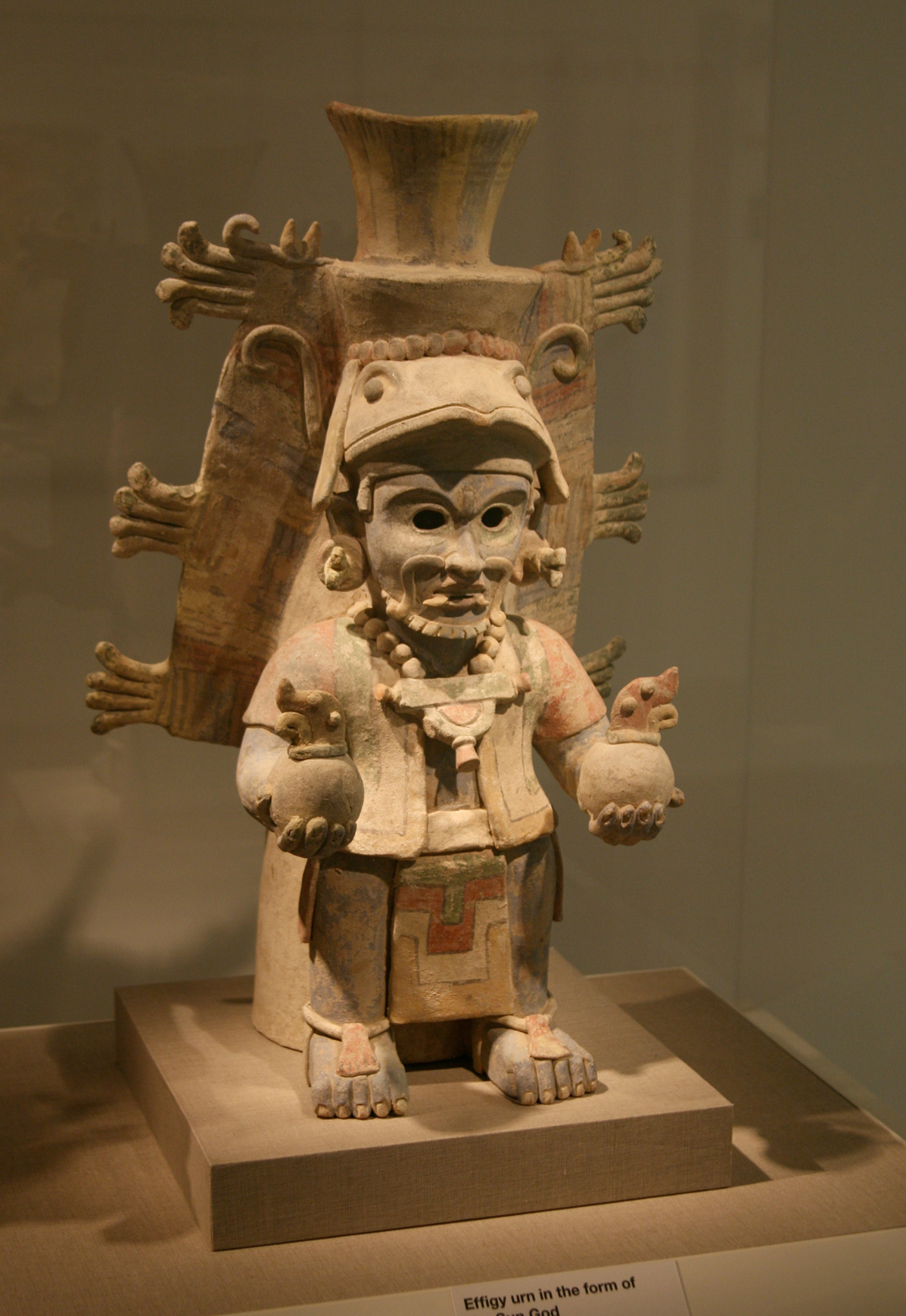 Terra cotta image of Mayan Sun God (Ah Kin?) at San Francisco's deYoung museum, nonflash image permitted